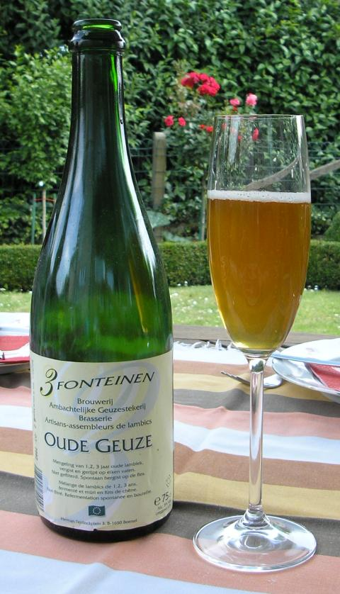 Picture of a bottle of 3 fonteinen geuze (Halle, Belgium, Aug 06)